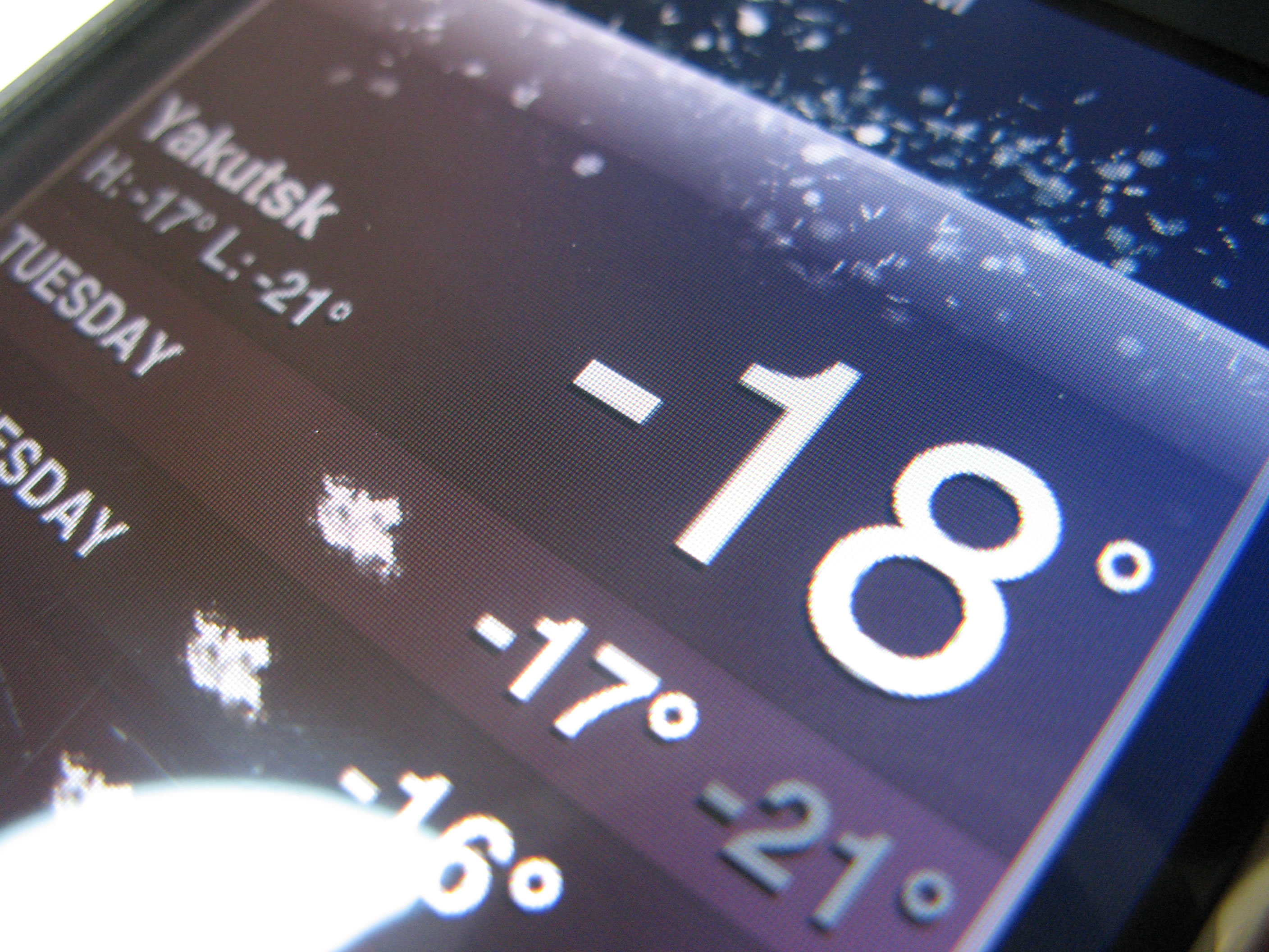 iPhone weather app